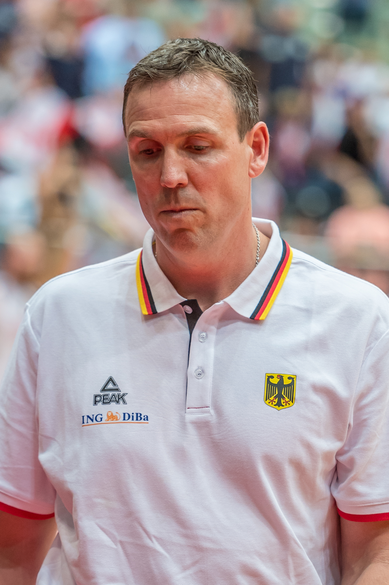 EuroBasket 2017 Qualification Austria vs Germany, Schwechat, Lower Austria, 2016-09-03.